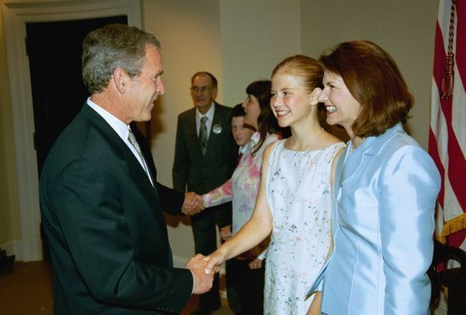 President George W. Bush greets Elizabeth Smart and her mother Lois in the Roosevelt Room of the White House at the signing of the S. 151, PROTECT Act of 2003.